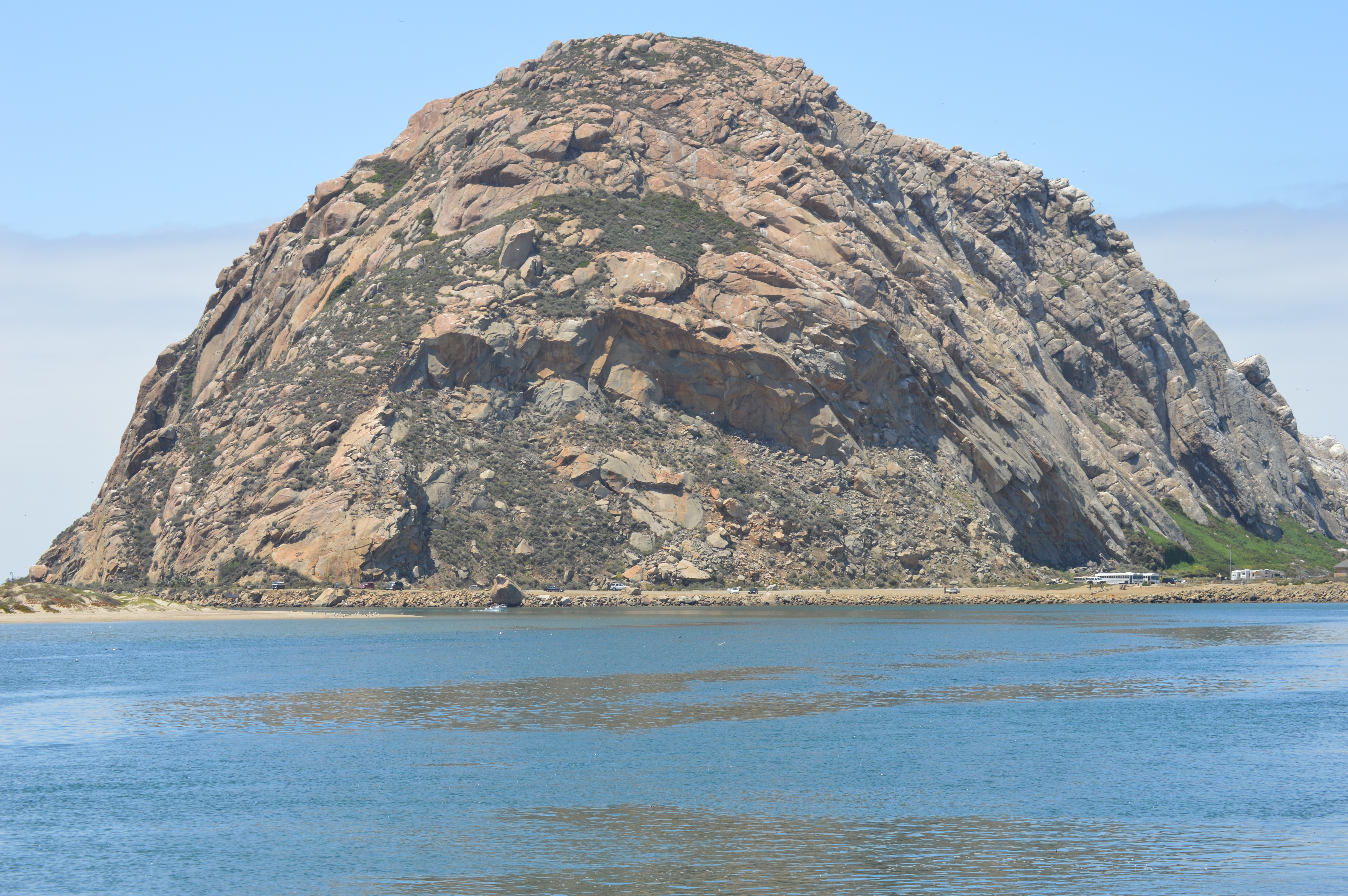 On the South T Pier, looking across the bay at Morro Rock